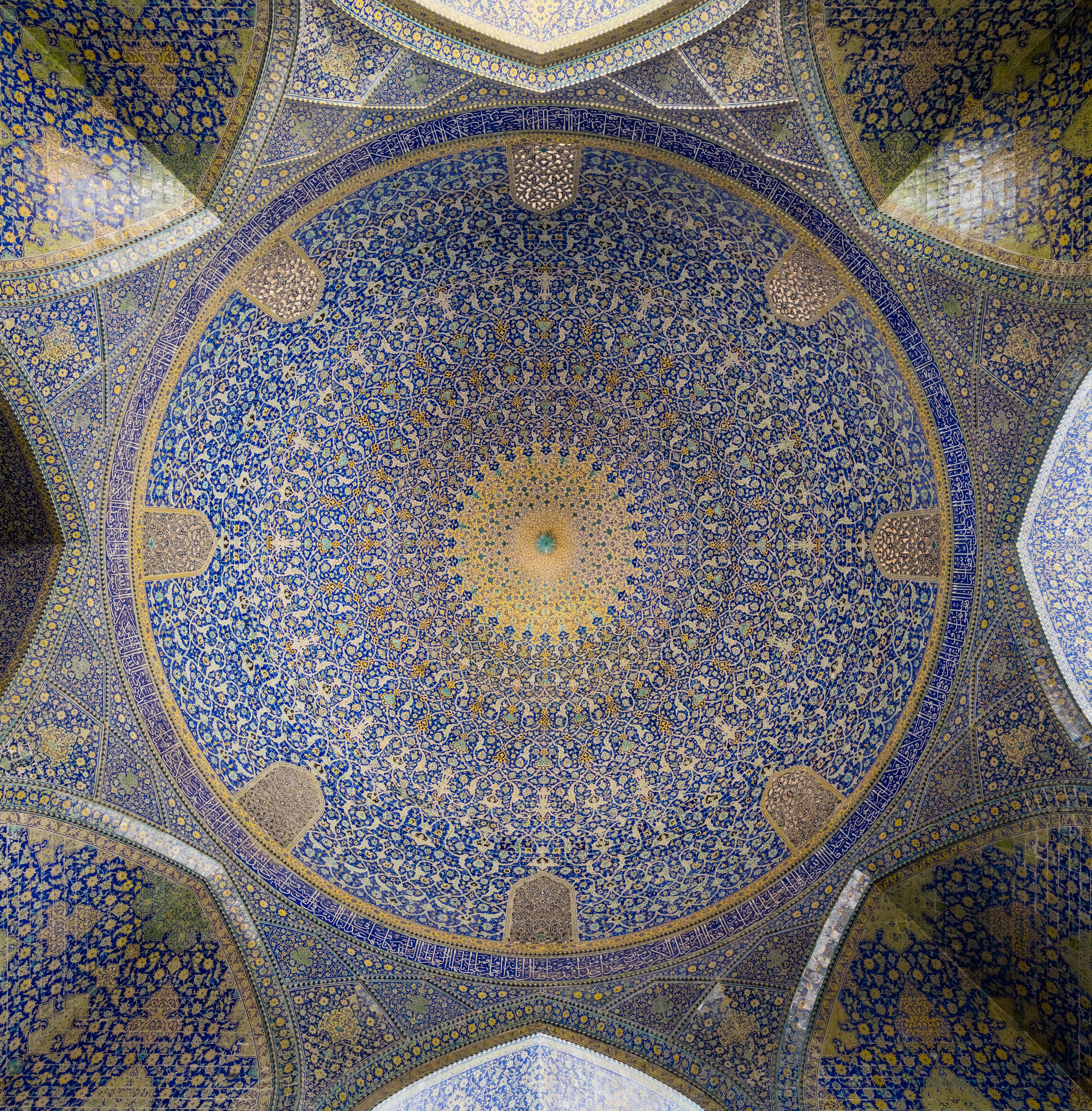 Interior view of the dome of the Shah Mosque, Isfahan, Iran. The mosque, a UNESCO World Heritage site started its construction in 1611, during the Safavid dynasty per order of Abbas I of Persia. It's considered one of the masterpieces of Persian architecture in the Islamic era.